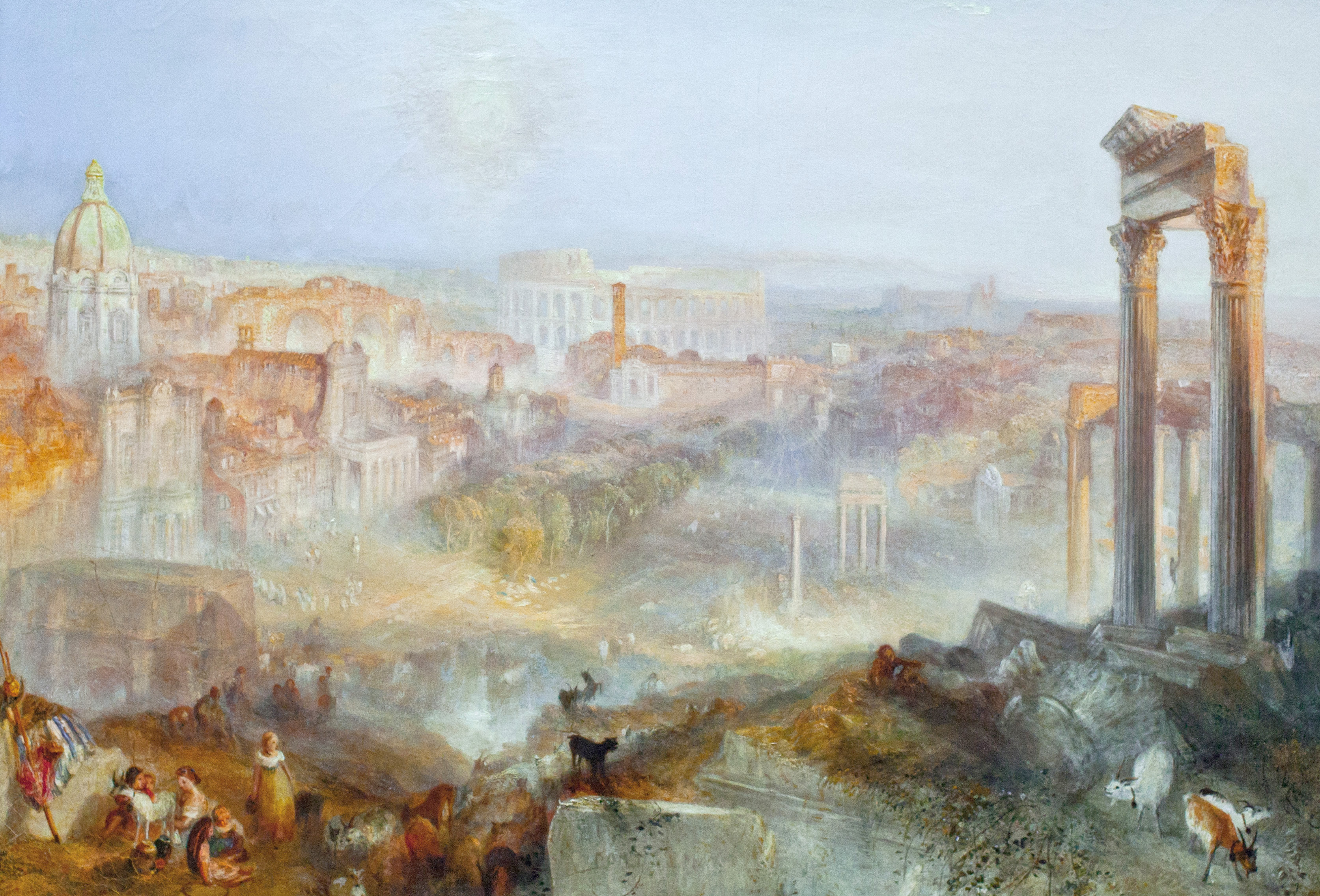 Ten years after his final journey to Rome, Turner envisioned the Eternal City through a veil of memory. Baroque churches and ancient monuments in and around the Roman Forum seem to dissolve in iridescent light shed by a moon rising at left and a sun setting behind the Capitoline Hill at right. Amidst these splendors, the city's inhabitants carry on with their daily activities. The picture's nacreous palette and shimmering light effects exemplify Turner at his most accomplished. When first exhibited at the Royal Academy in 1839, the painting was accompanied by a modified quotation from Lord Byron's masterpiece, Childe Harold's Pilgrimage (1818): "The moon is up, and yet it is not night, / The sun as yet divides the day with her." Like the poem, Turner's painting evokes the enduring sublimity of Rome, which had been for artists throughout history less a place in the real world than one in the imagination. The painting is in a remarkable state of preservation and remains untouched since it left Turner's hands.